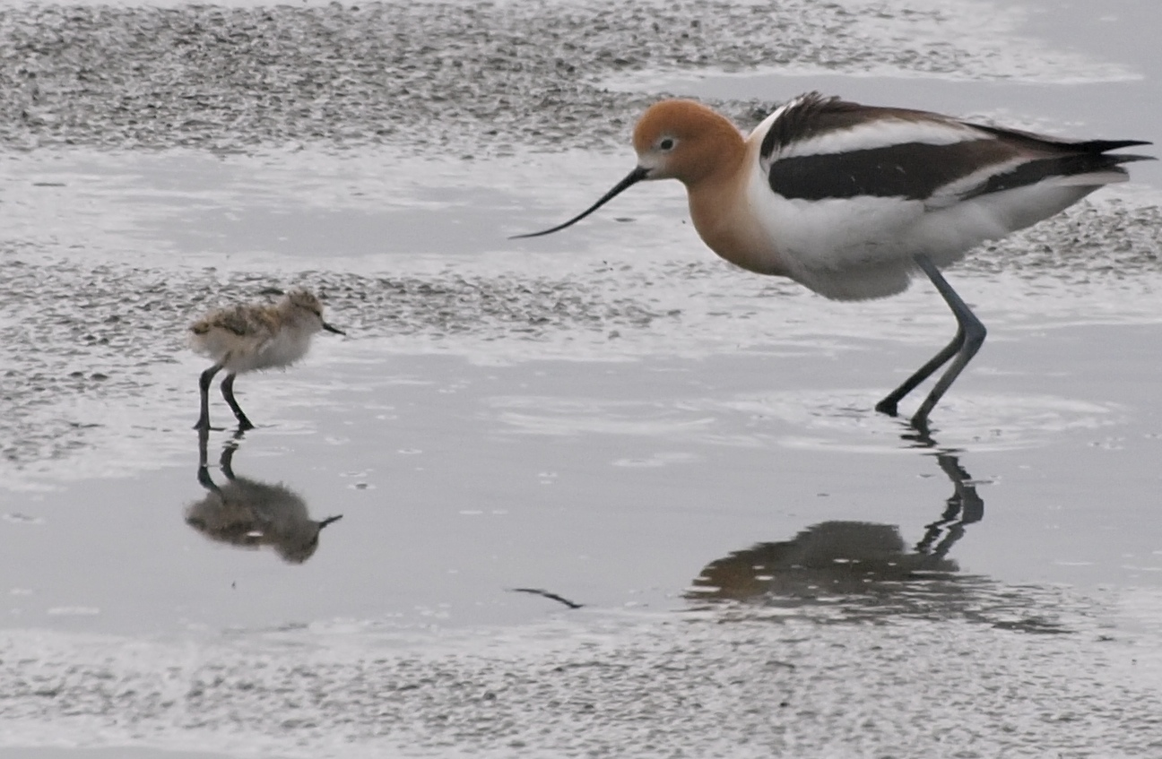 An American Avocet parent with a chick Palo Alto Baylands Nature Preserve, California, USA.